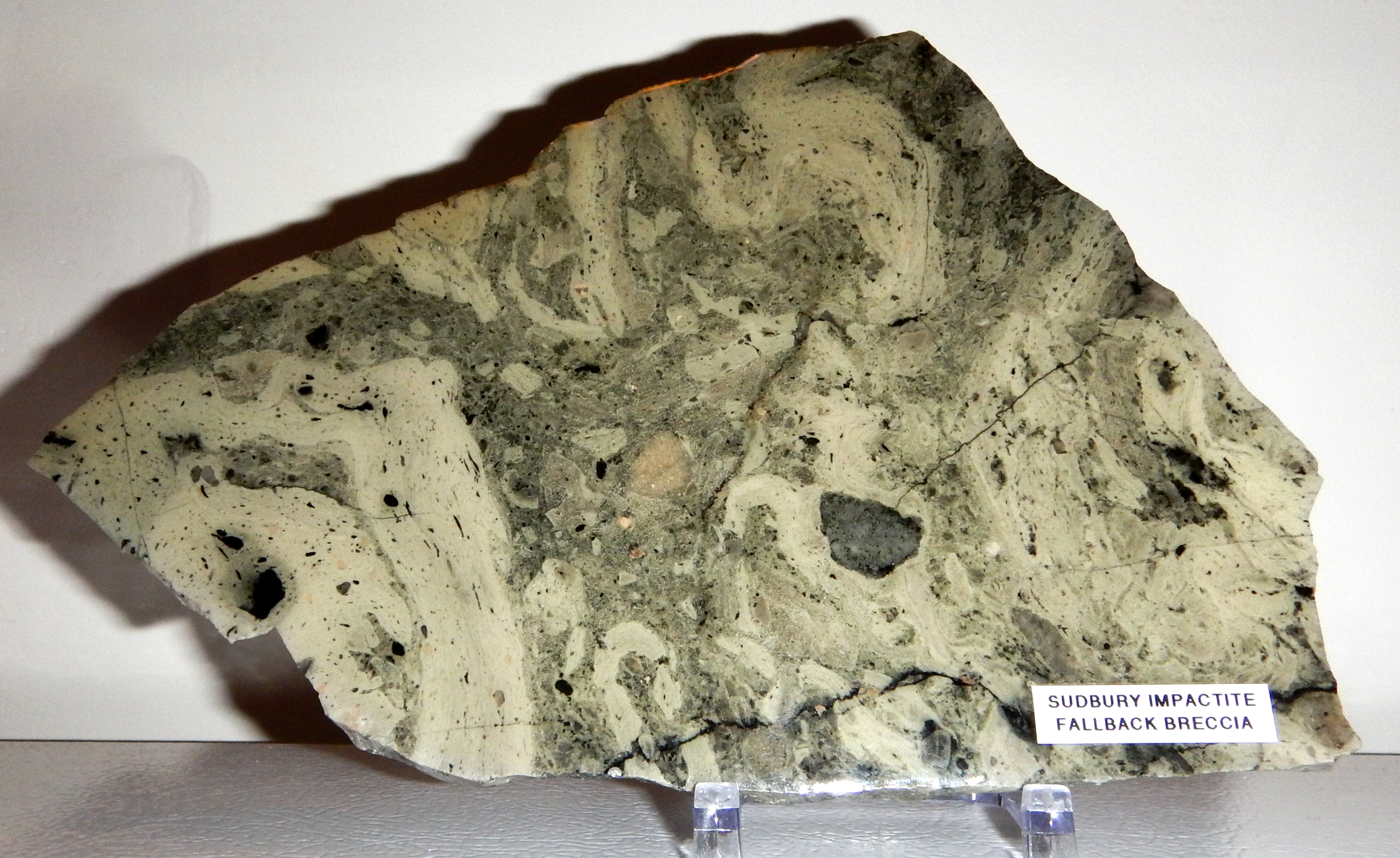 The mesmerizing impact melt of the Sudbury Impactite, from concentric rock formations outlining a large crater. The Sudbury crater was created by a big rock from space crashing into the Earth 1.87 billion years ago. The impact structure has since been pinched one way and elongated the other direction to 190 km length by plate tectonics. The polished 9 x 6 inch slice of Grey Onaping Fallback Breccia is from Highway 144 near Dowling, Sudbury District, Ontario and sold to yours truly by the Rox Rock Shop in Westport Ontario. Further linkage for the power and extent of the Sudbury impactor by its rattling what was the 1.87 billion year old landscape over in what is now Thunder Bay, 600 miles away.